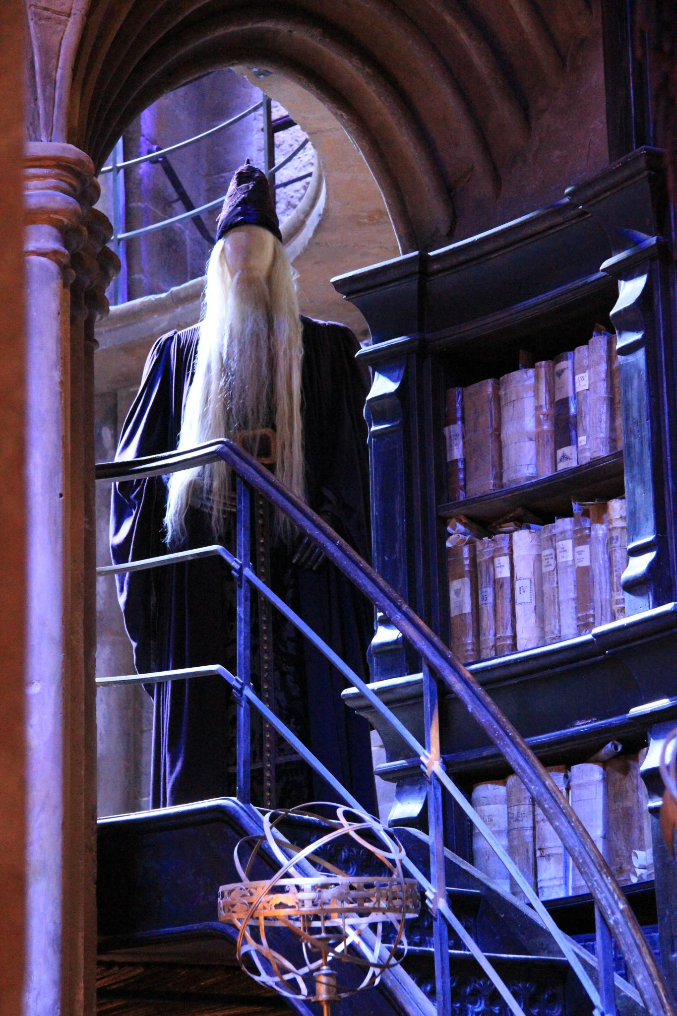 Warner Bros. Studio Tour London: The Making of Harry Potter.